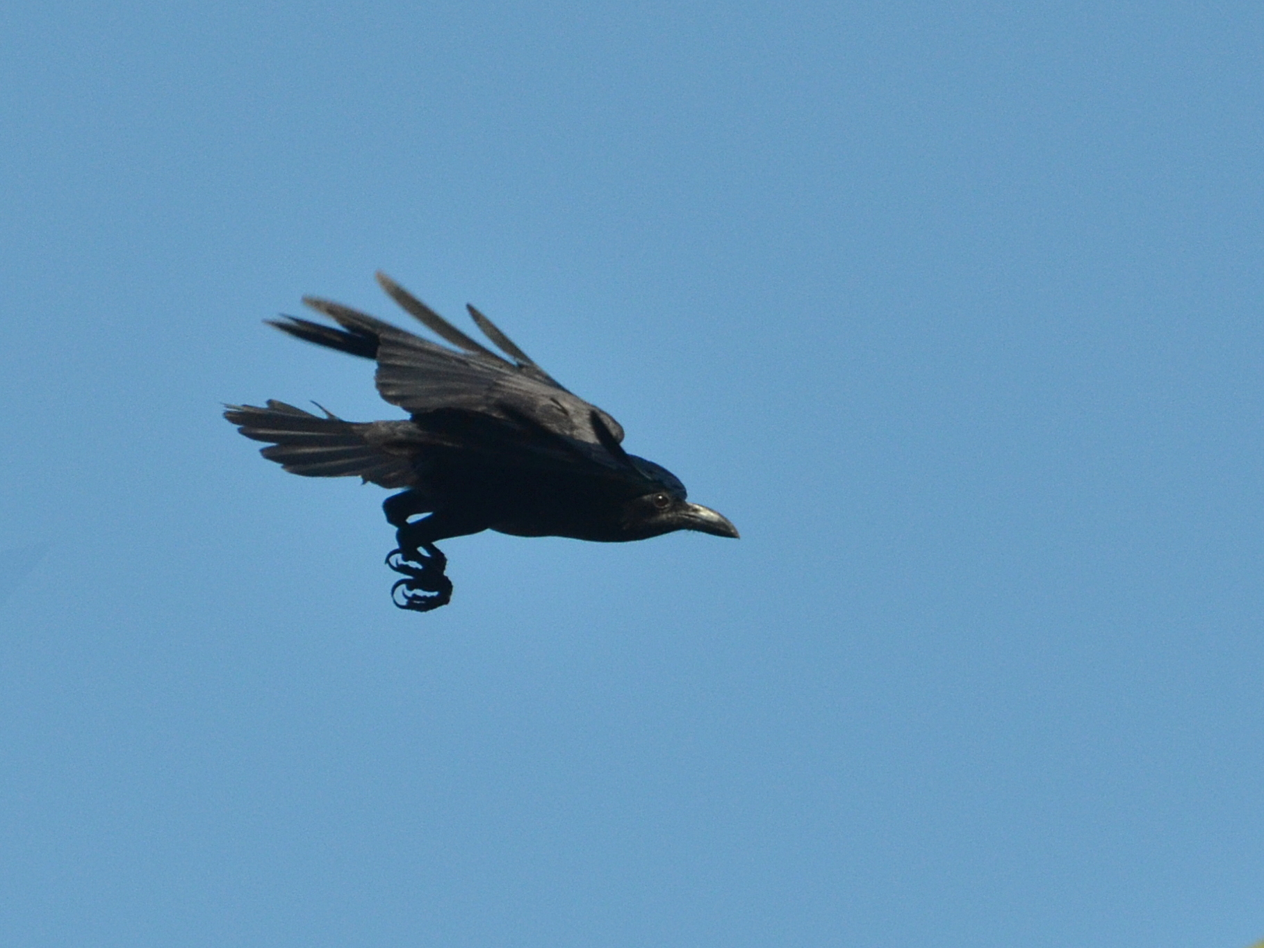 Slender-billed crow (Corvus enca celebensis) at Warembungan, North SulawesiBahasa Indonesia: Gagak hutan (Corvus enca celebensis) di Warembungan, Sulawesi Utara